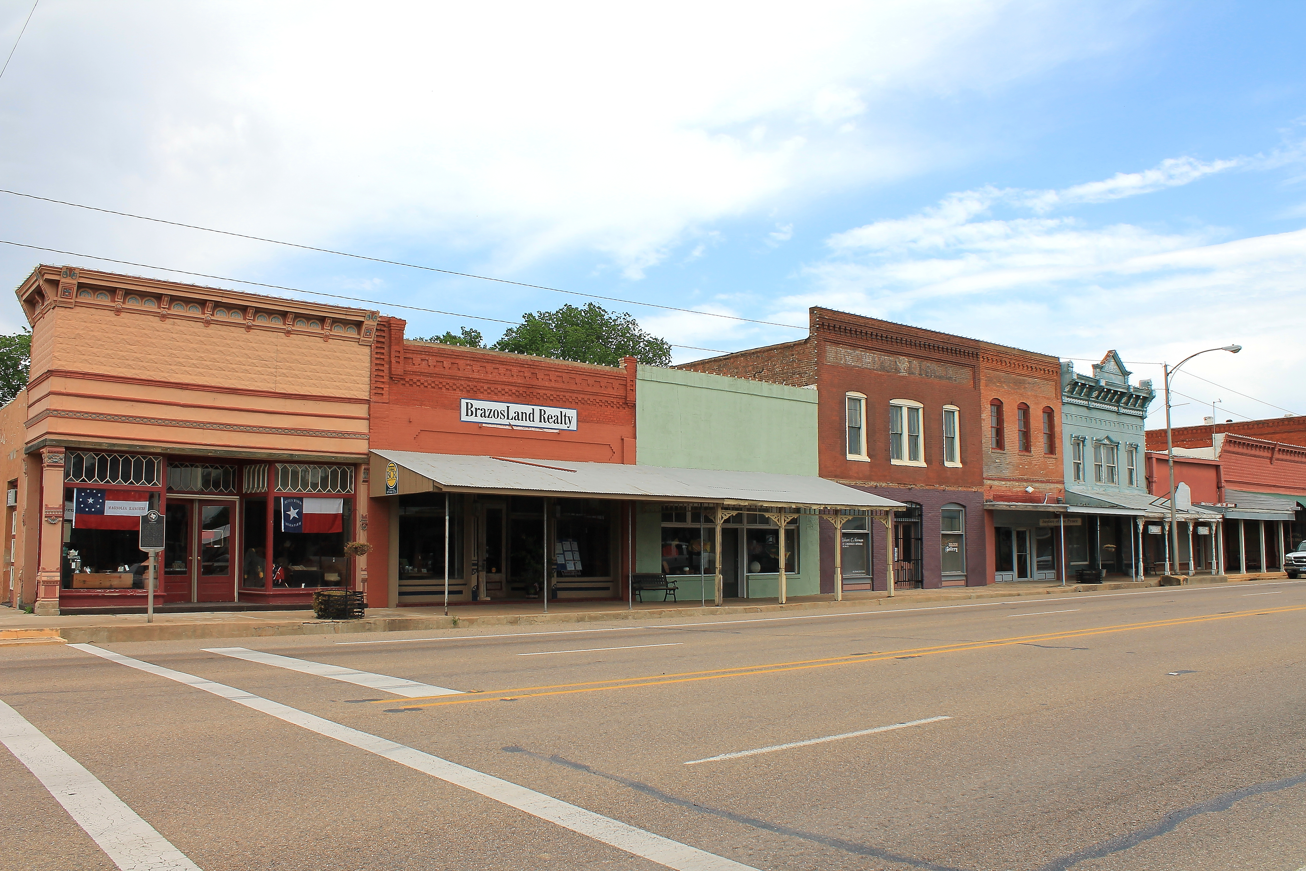 City of Calvert, Texas